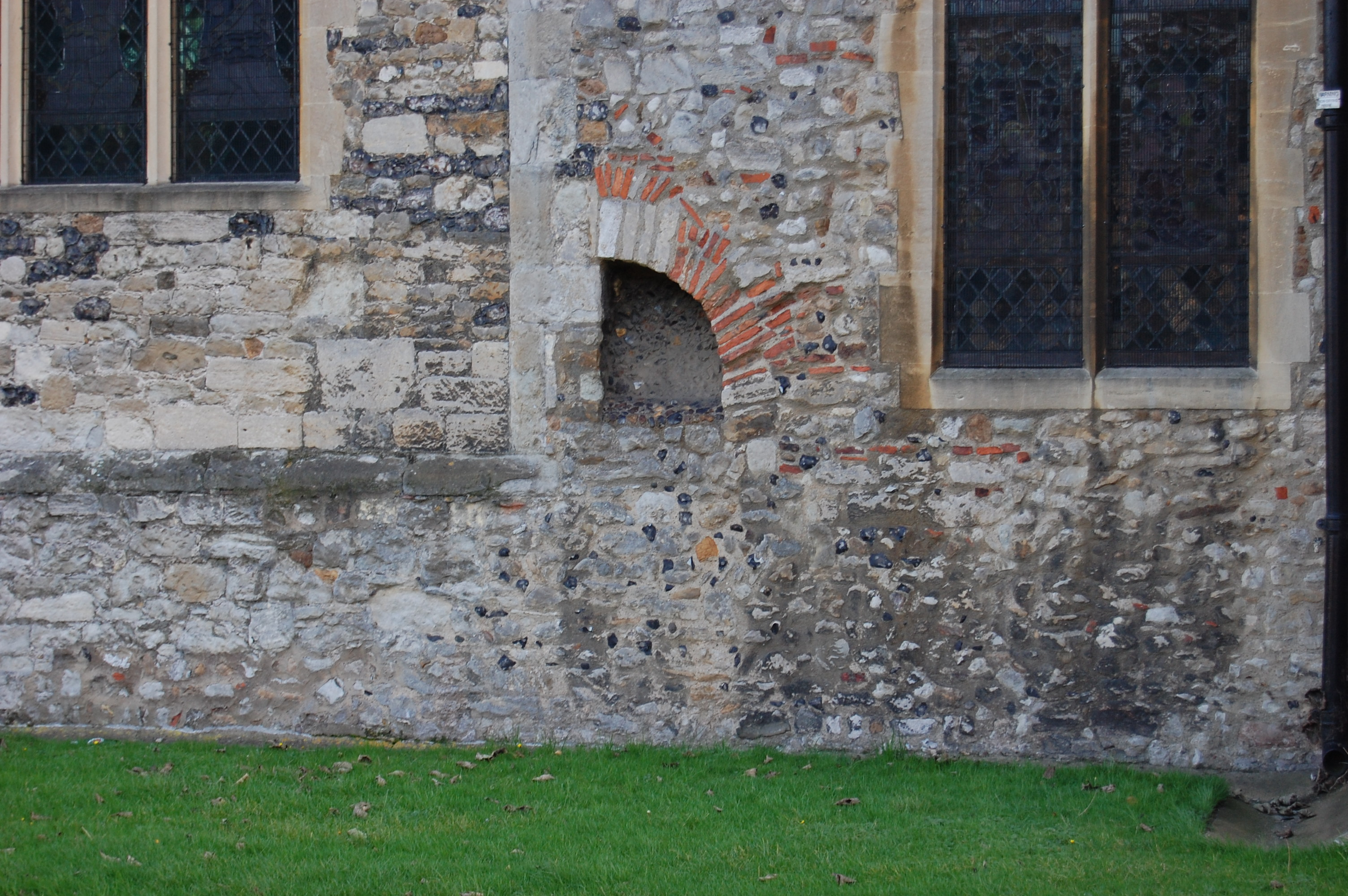 The remains of the blocked 7th-century doorway in the north wall of the chancel of St Mary's parish church, Prittlewell, Southend, Essex